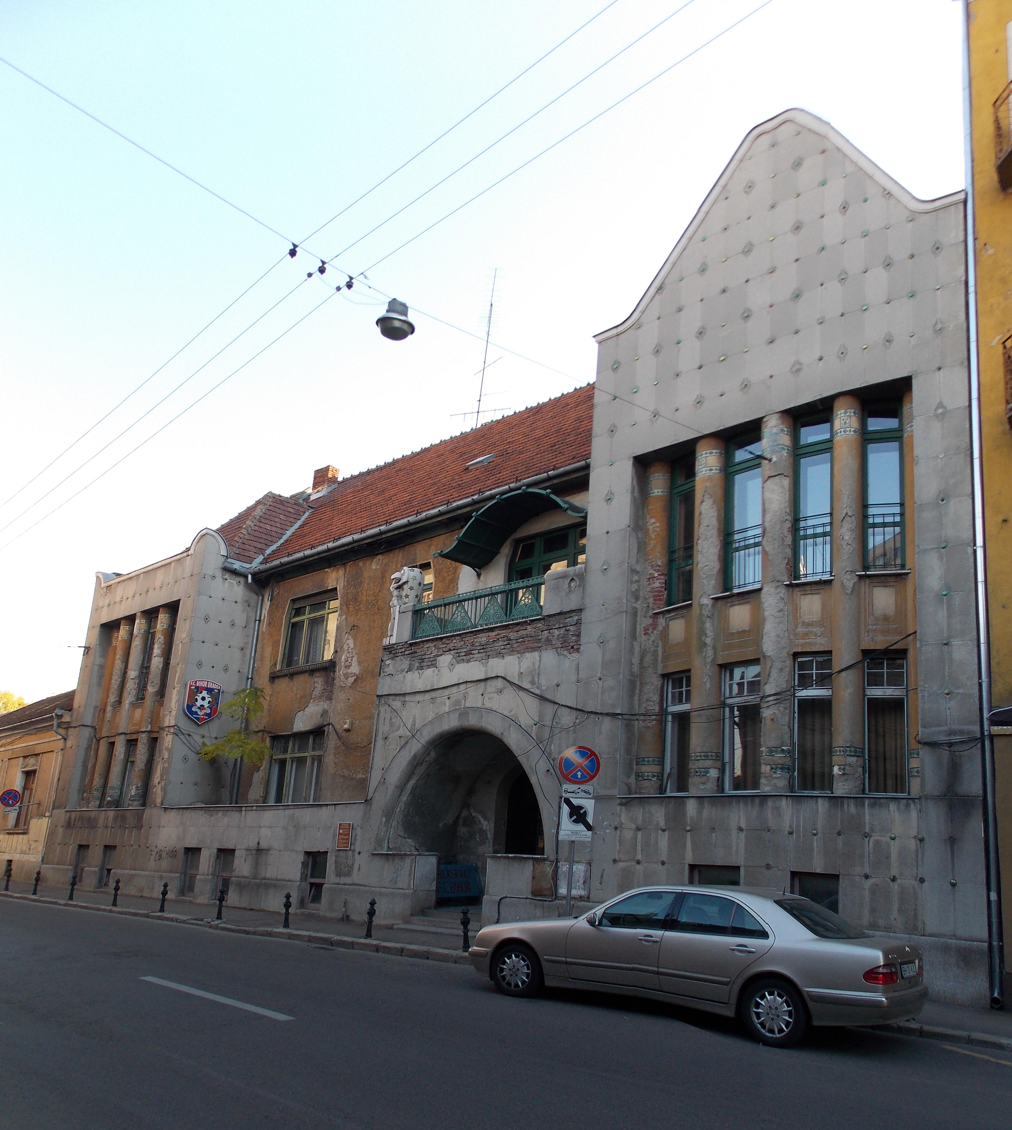 "Darvas - La Roche" House - OradeaRomână: Casa "Darvas - La Roche" - Oradea